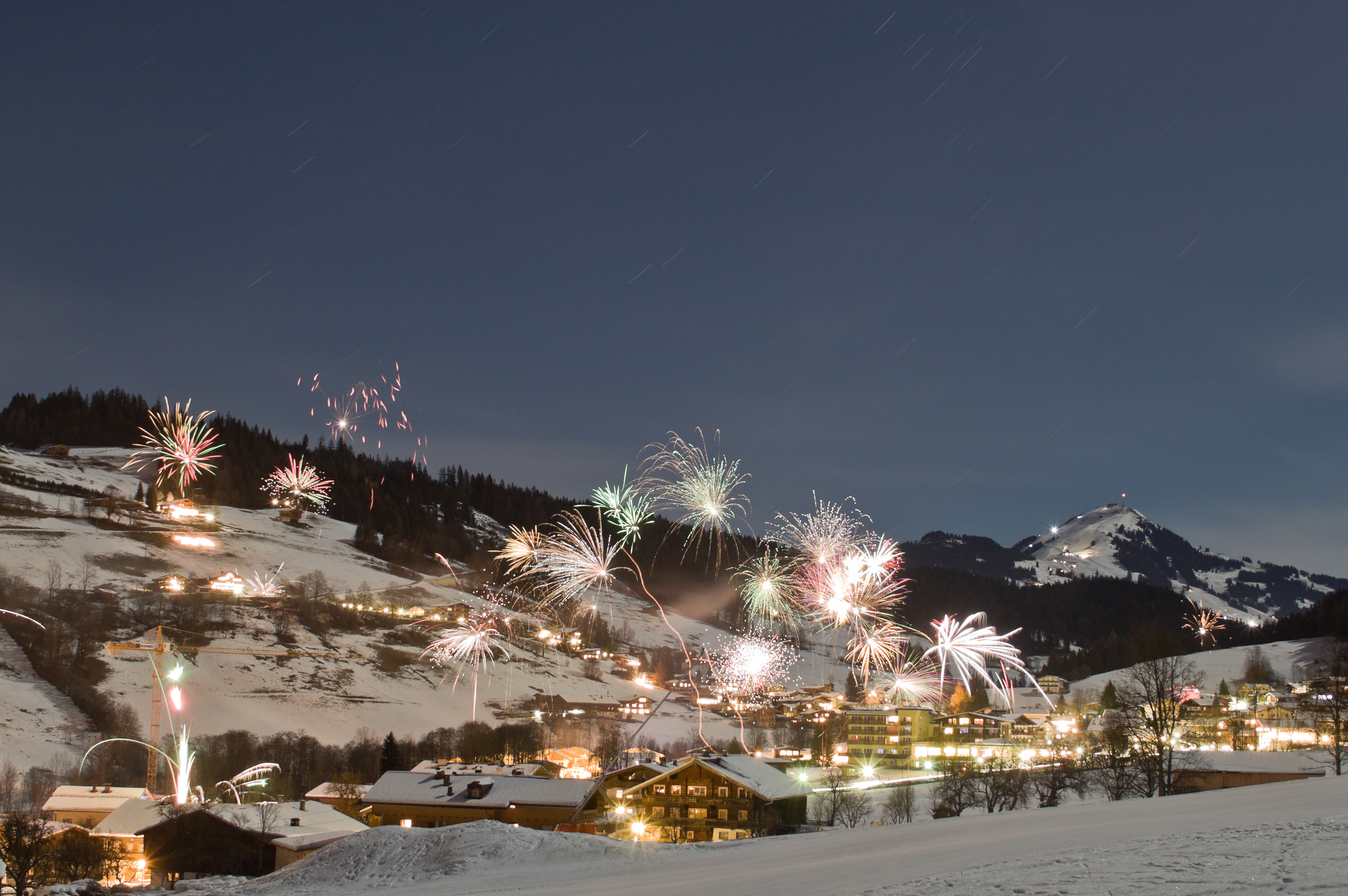 Firework at the New Year's Eve in Niederau, Tyrol, Austria.